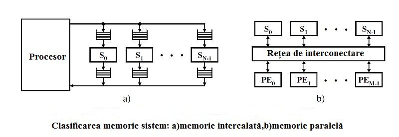 Memorie_sistem